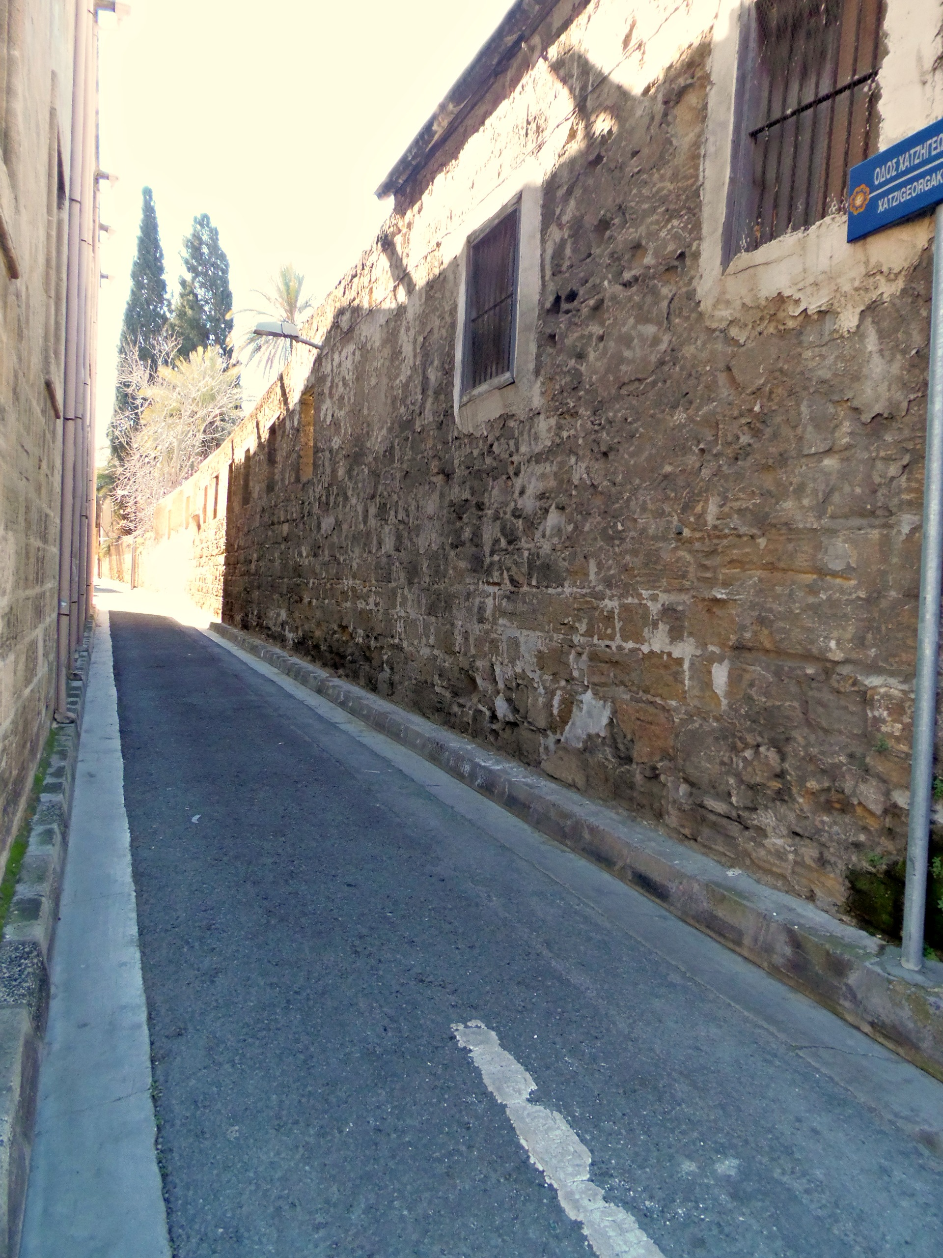 Narrow street in Nicosia South, Cyprus